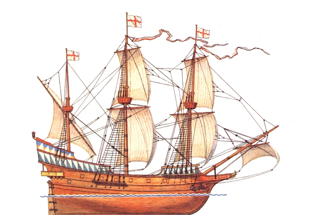 Galeona, probably Golden Hind